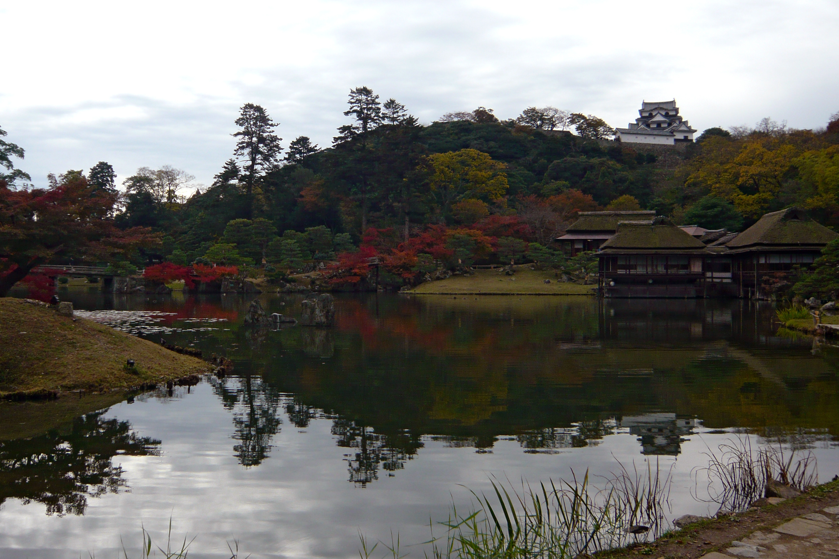 Genkyu-en (玄宮園), Hikone, Shiga prefecture, Japan